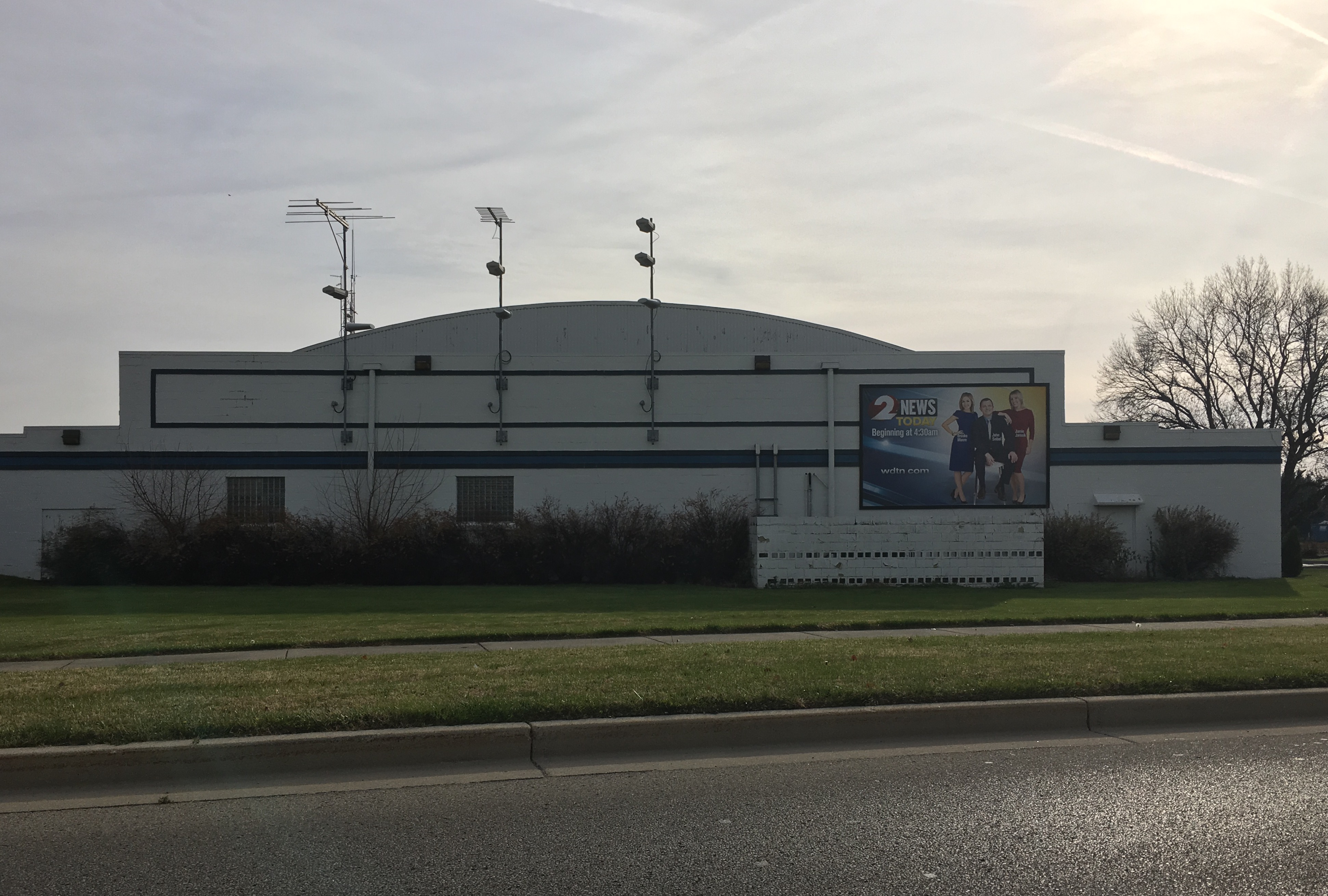 WDTN studios in Moraine, Ohio